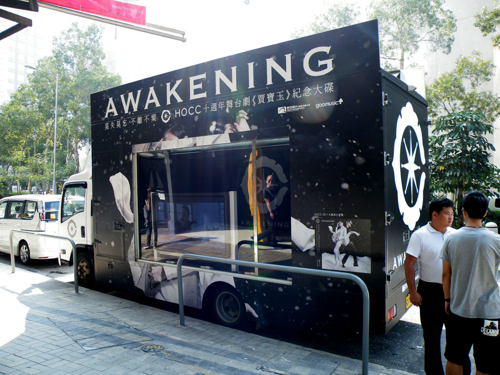 Promotion Car for "Awakening"